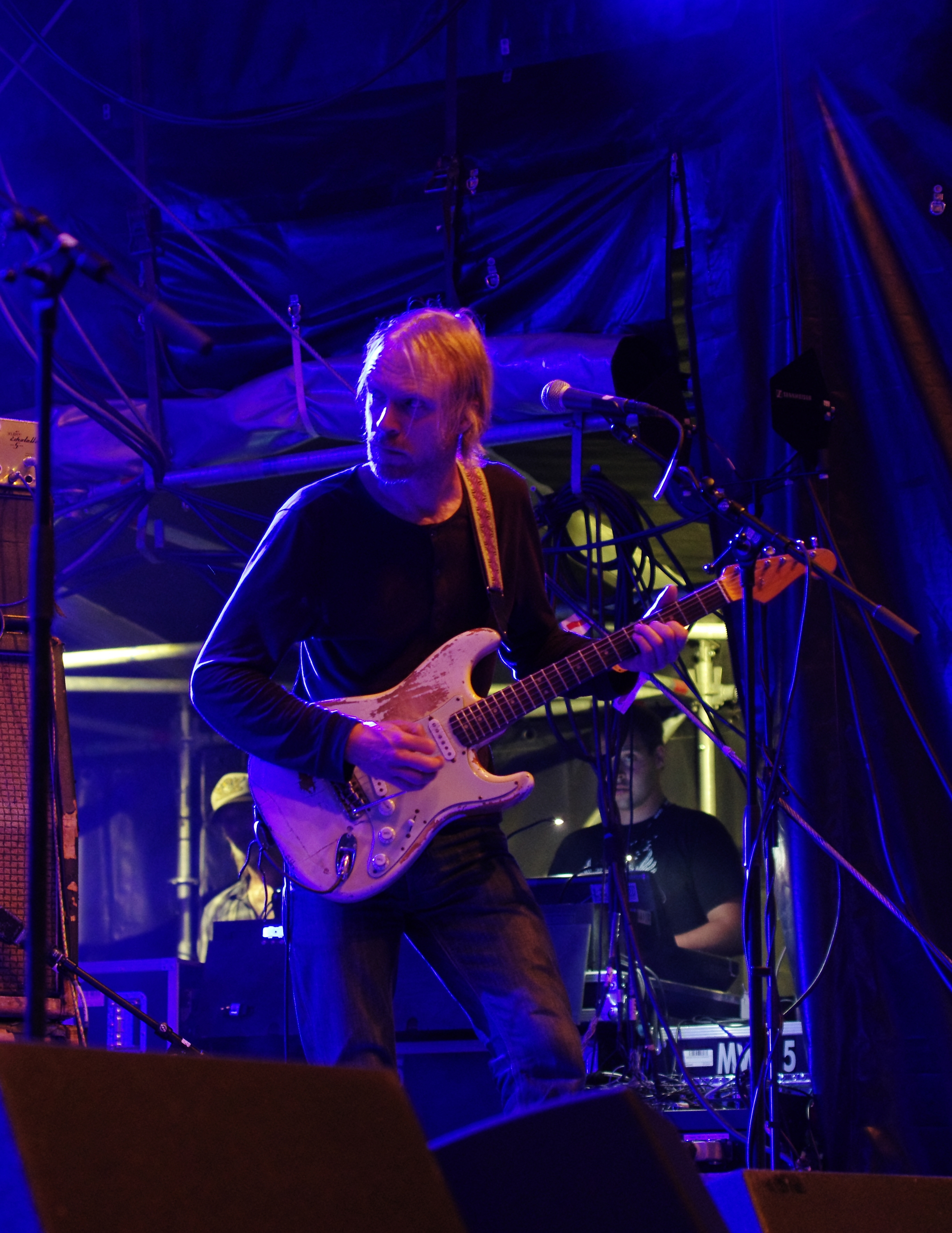 Motorpsycho at Krach am Bach festival in Beelen. Lineup: Bent Sæther (bass/guitar/vocals), Hans Magnus "Snah" Ryan (guitar/vocals), Kenneth Kapstad (drums), Reine Fiske (guitar).